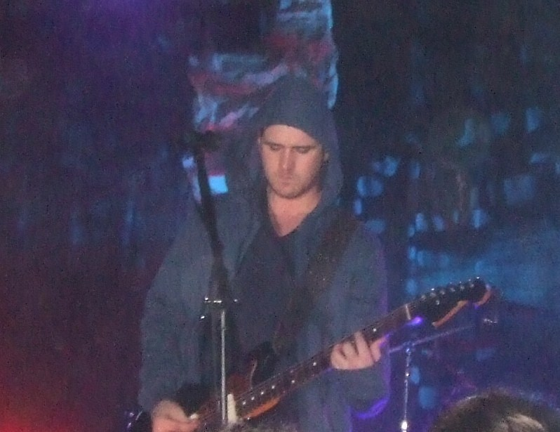 Jesse Lacey and Brand new performing at the Starland Ballroom on June 20, 2006.